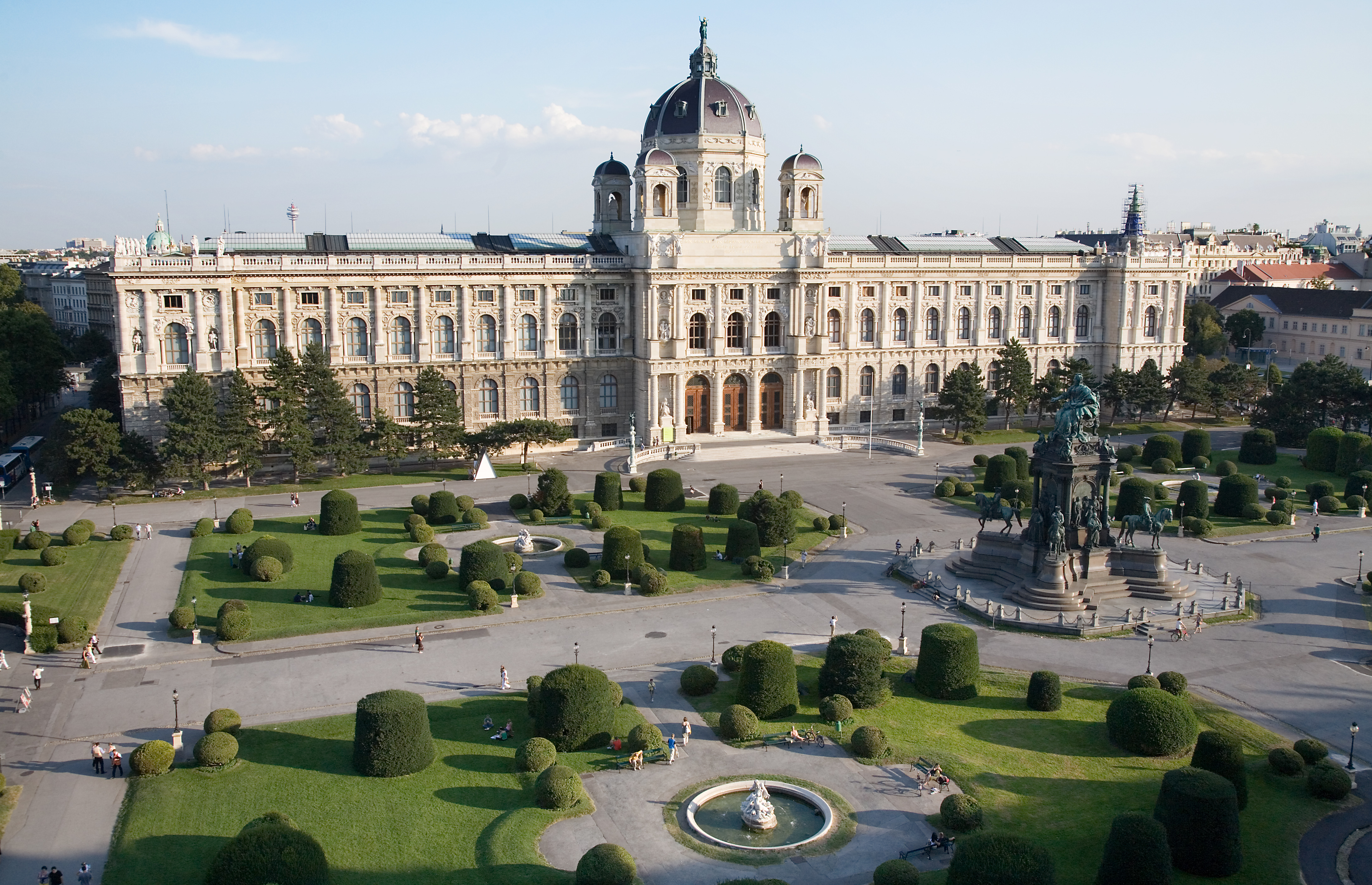 View of Maria Theresien-Platz and the main building of the Kunsthistorisches Museum from the Naturhistorisches Museum (Museum of Natural History), Vienna, Austria